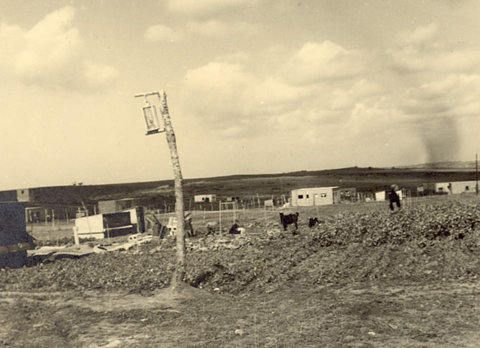 Ein Sarid - first lamp, Settlements in Israel